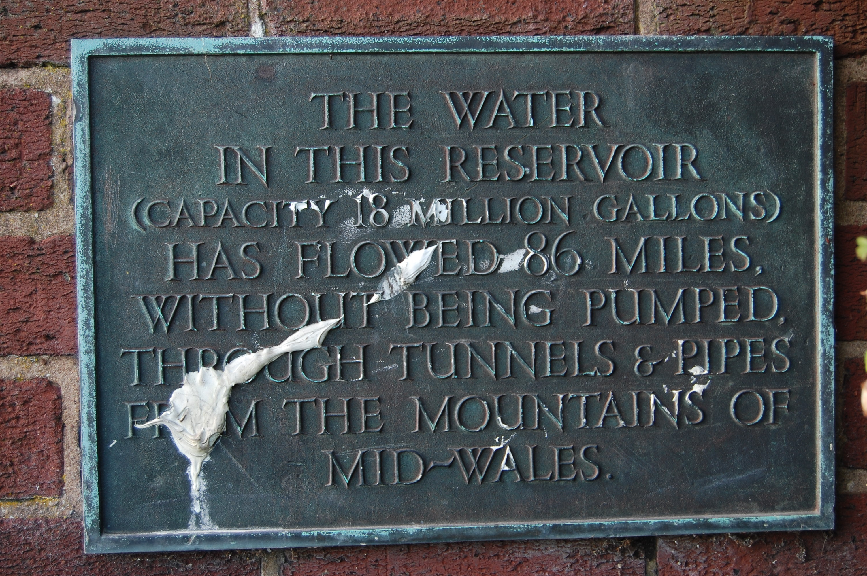 Old City of Birmingham Water Department sign at Perry Barr Reservoir, Birmingham, England. Reads "The water in this reservoir (capacity 18 million gallons) has flowed 86 miles, without being pumped, though tunnels & pipes from the mountains of mid-Wales."